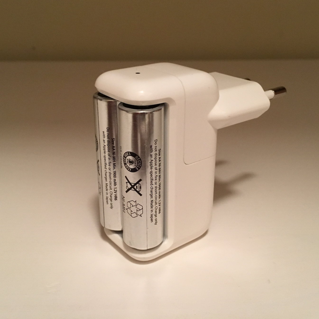 This is the Apple Battery Charger that was sold until 2016. This one has a European power plug.